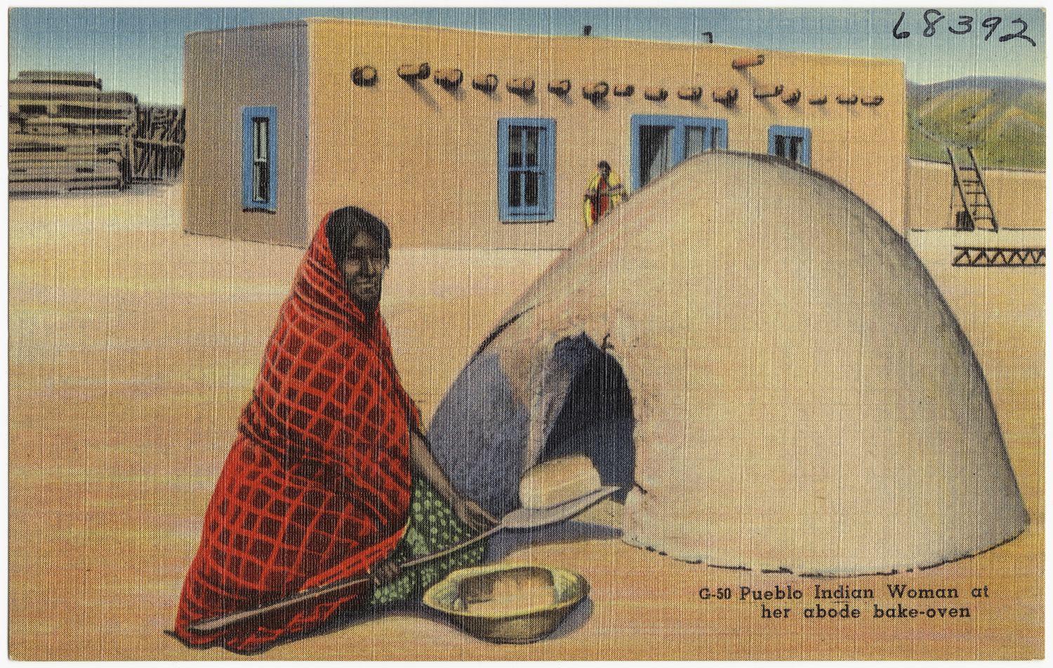 File name: 06_10_015559 Title: G-50 Pueblo Indian woman at her adobe bake-oven Created/Published: Pub. by Southwest Arts & Crafts, Santa Fe, New Mexico; Tichnor Bros. Inc., Boston, Mass. Date issued: 1930 - 1945 (approximate) Physical description: 1 print (postcard) : linen texture, color ; 3 1/2 x 5 1/2 in. Genre: Postcards Subjects: Notes: Collection: The Tichnor Brothers Collection Location: Boston Public Library, Print Department Rights: No known restrictions